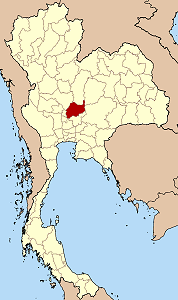 Map of Thailand highlighting Lopburi province